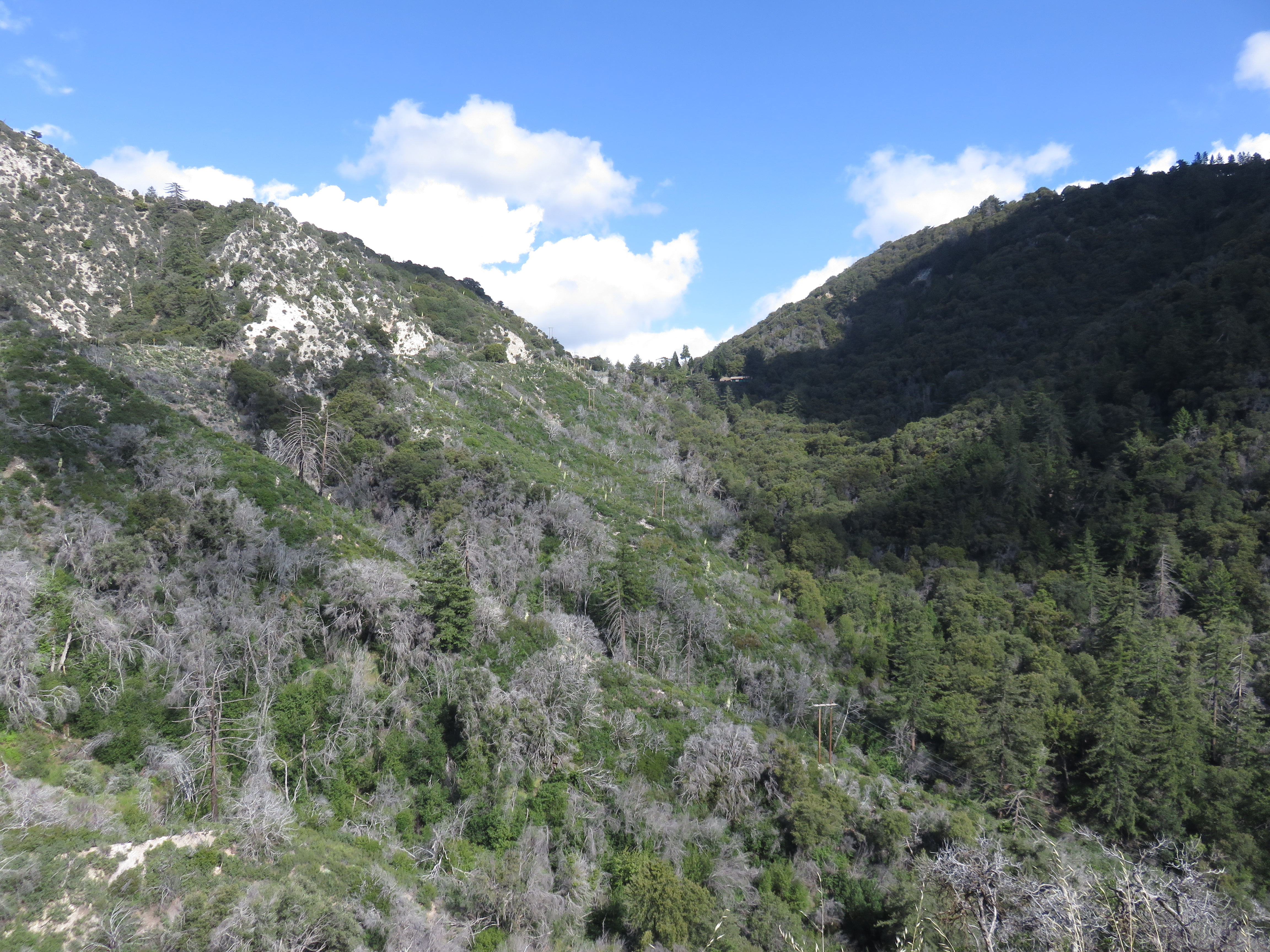 Red Box Saddle in the San Gabriel Mountains of California in 2019